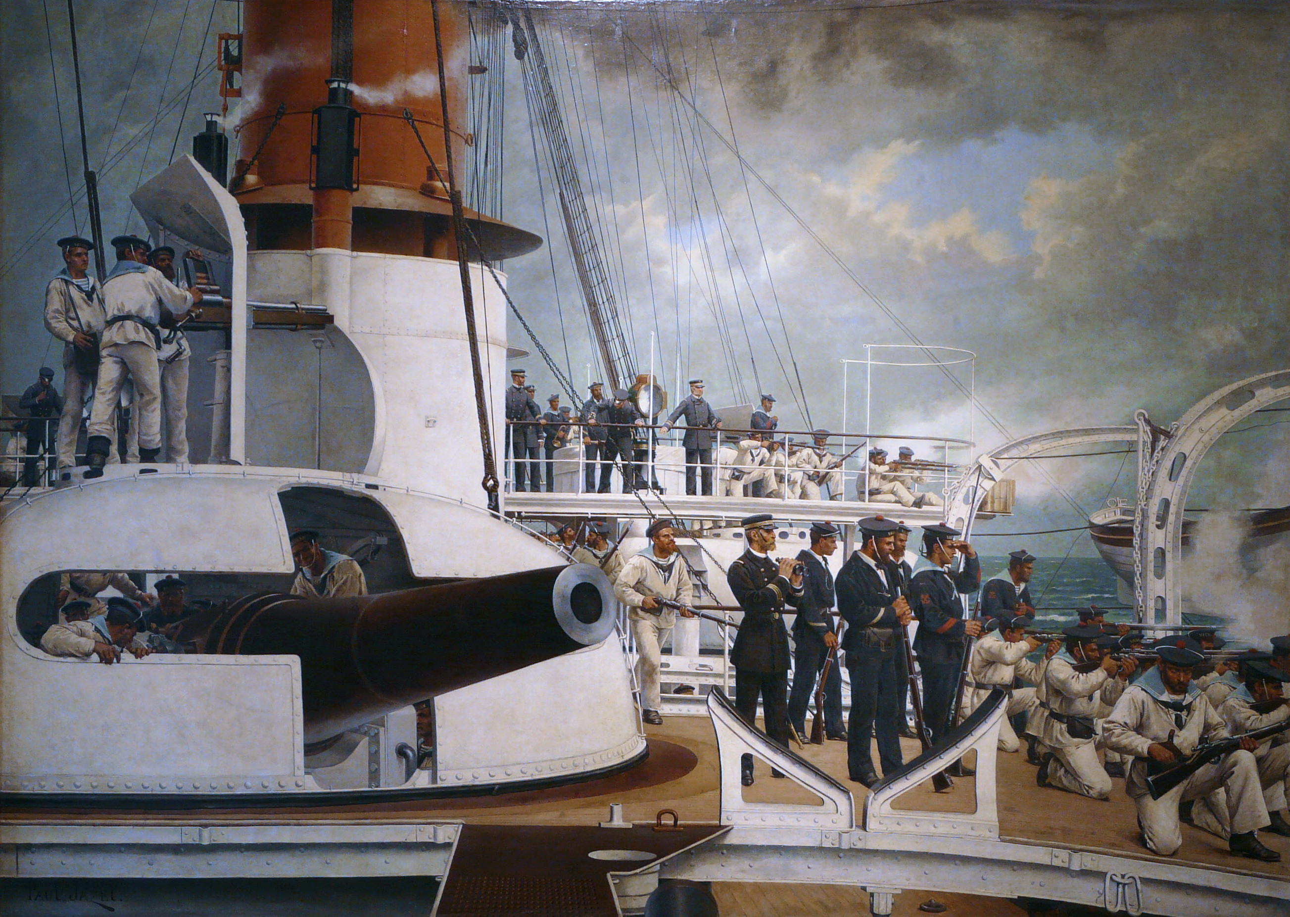 Painting of a battle drill on Vauban class battleship in 1880s